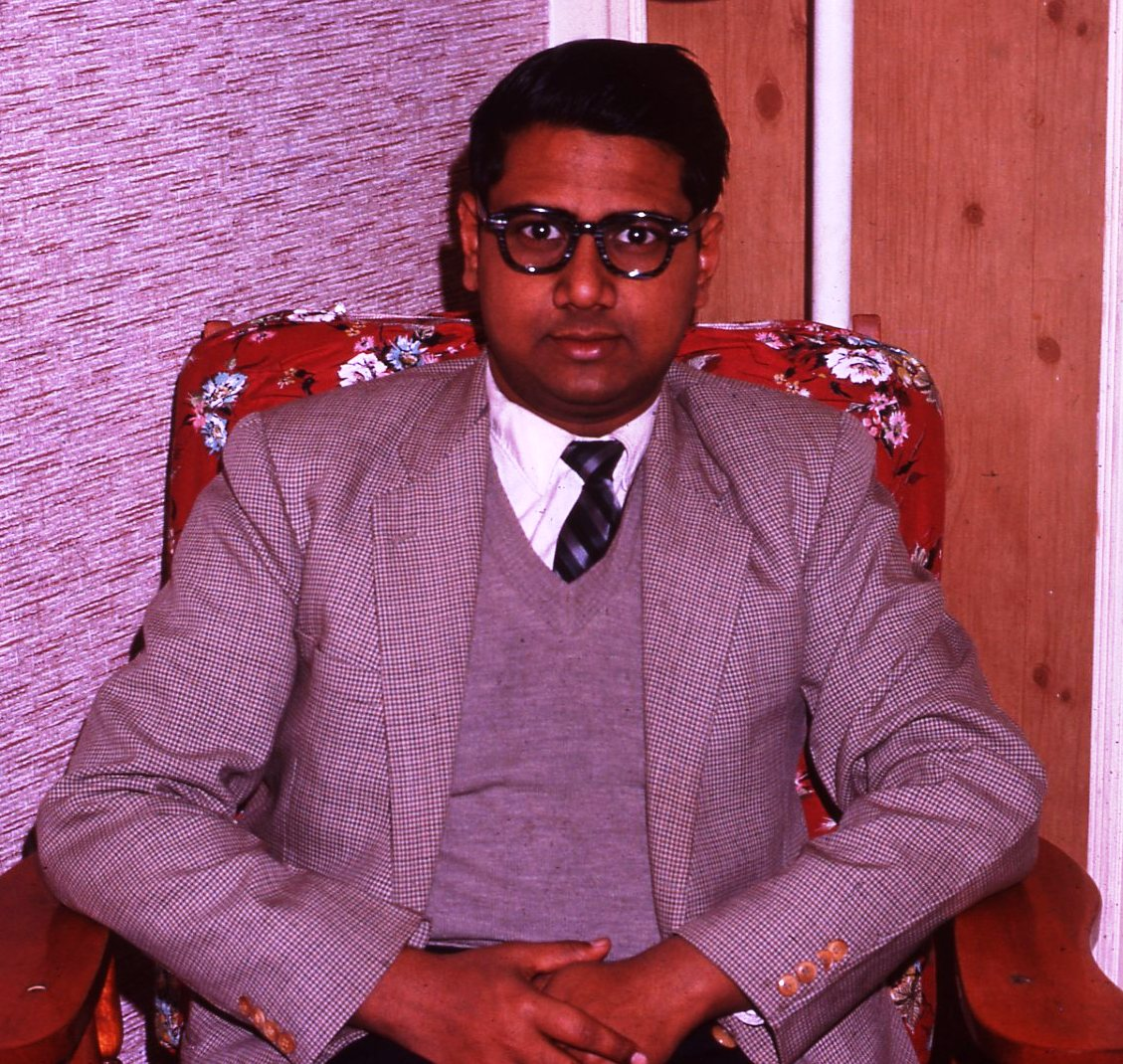 Old photo digitalized